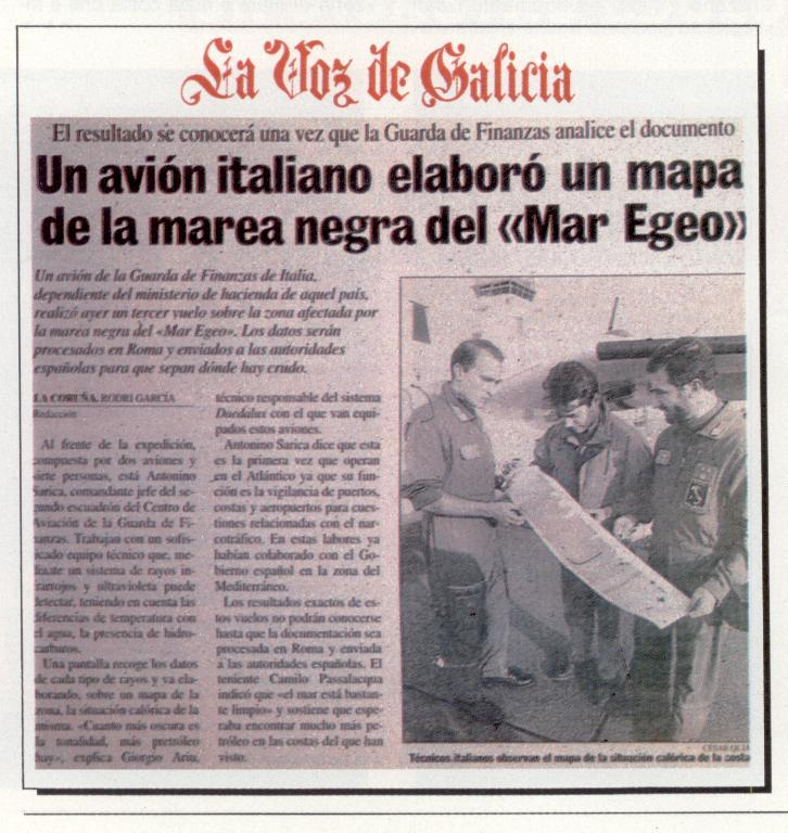 La Coruna 3 spagnolo